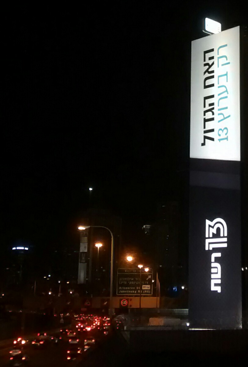 Reshet campain in Tel Aviv 2017, few days before the closure of channel 2